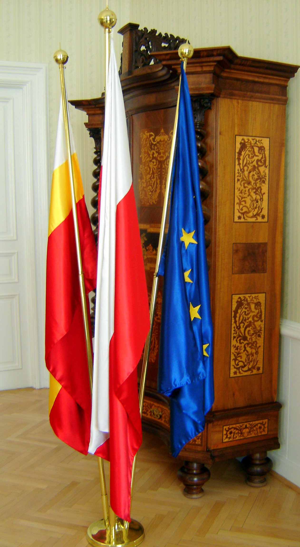 Flags of (left to right): Voivodeship of Lesser Poland Republic of Poland European Union Picture taken by Kpalion in April 2006 in the office of the Marshal of the Voivodeship of Lesser Poland